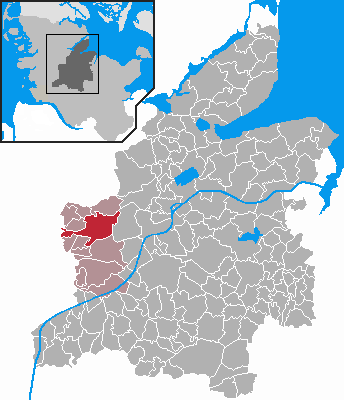 Locator maps of municipalities in Schleswig-Holstein - District Rendsburg-Eckernförde